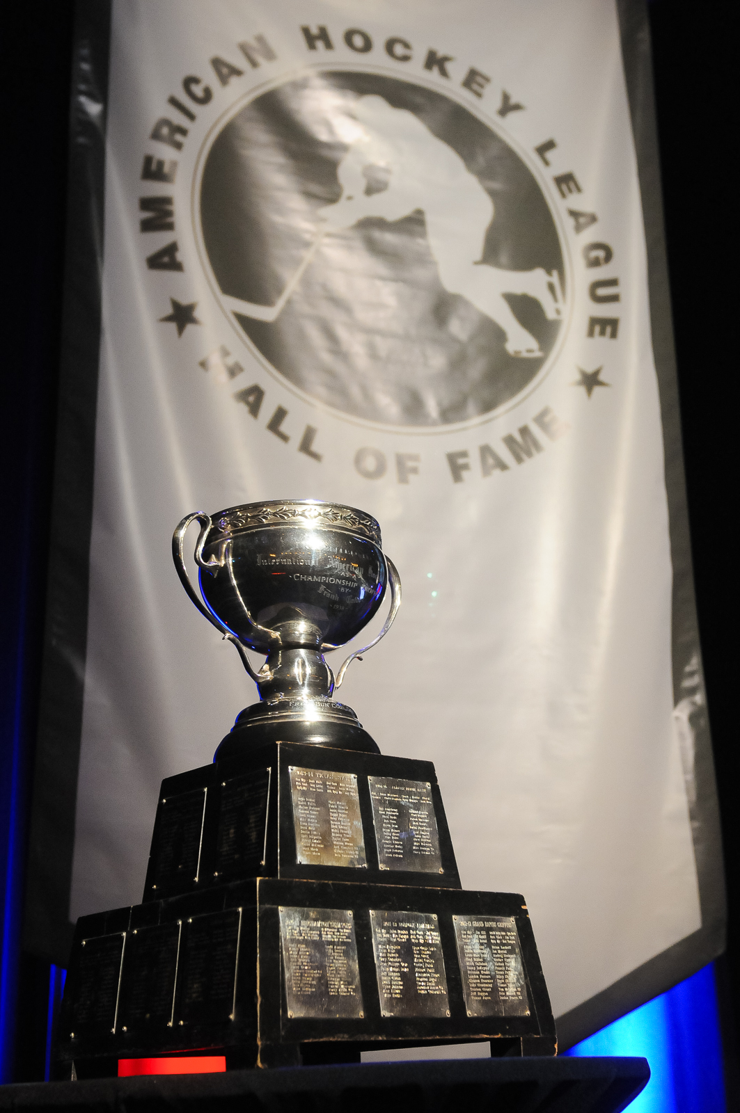 Lindsay A. Mogle/AHL